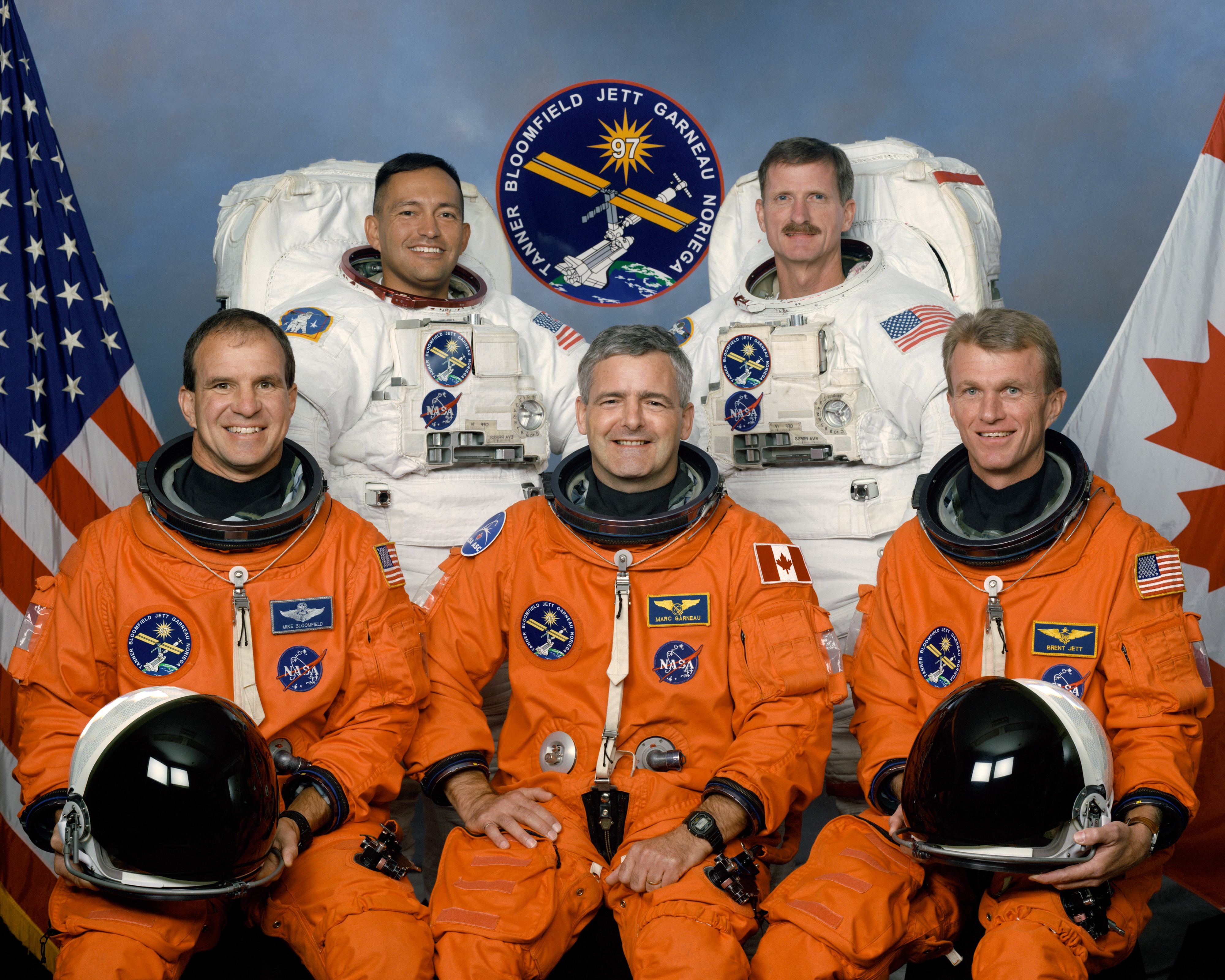 These five astronauts are in training for the STS-97 mission, scheduled to be launched late next year aboard the Space Shuttle Endeavour for a working visit to the International Space Station (ISS). Astronaut Brent W. Jett (front right) and Michael J. Bloomfield (front left) are commander and pilot, respectively. Flanked by those two is astronaut Marc Garneau, mission specialist representing the Canadian Space Agency (CSA). In the rear are astronauts Carlos I. Noriega (left) and Joseph R. Tanner, both mission specialists. Noriega and Tanner are wearing training versions of the extravehicular mobility unit (EMU) spacesuits they'll be wearing for spacewalking chores during the flight.